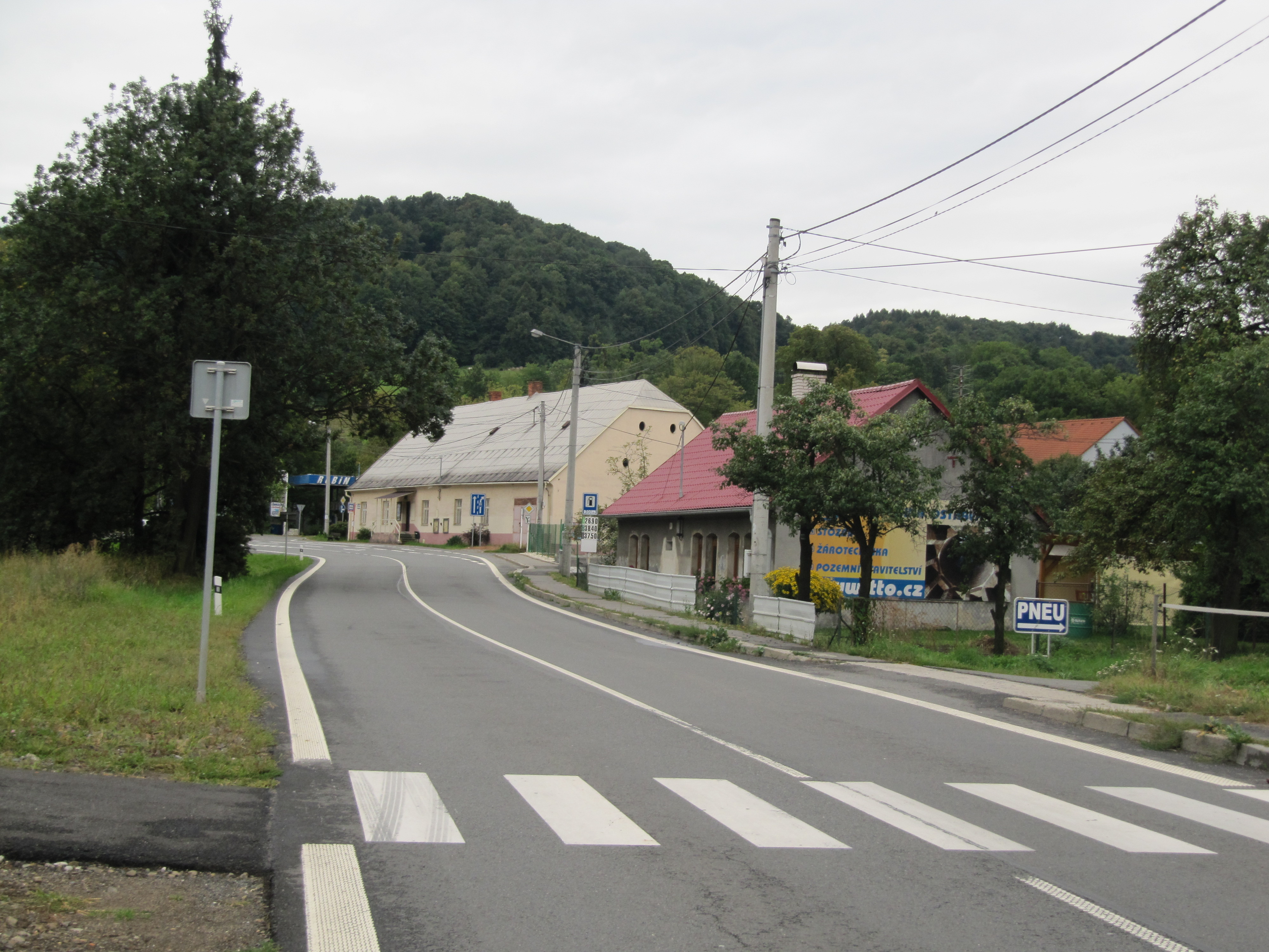 Nový Jičín, Czech Republic, part Bludovice.